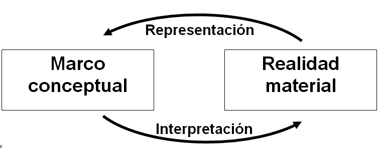 Cognitive operations of representation and interpretation